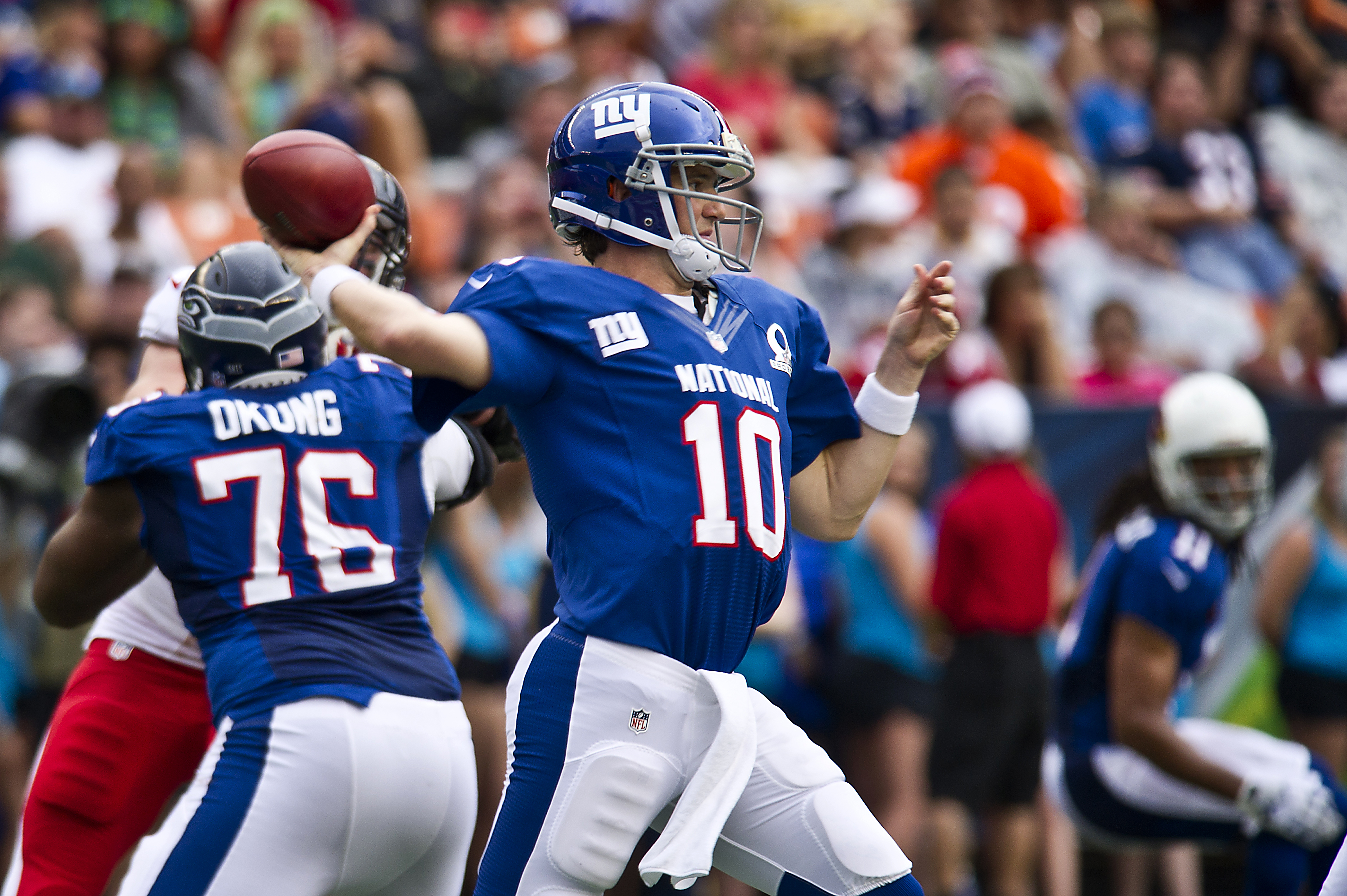 Eli Manning during 2013 Pro Bowl